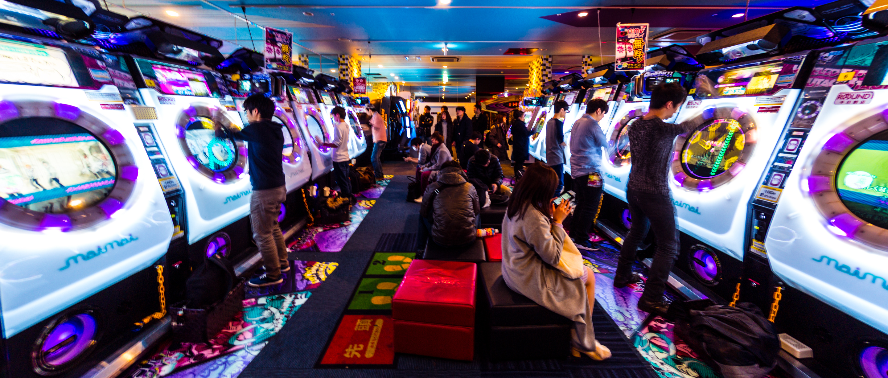 An amusement full of maimai murasaki cabinets.